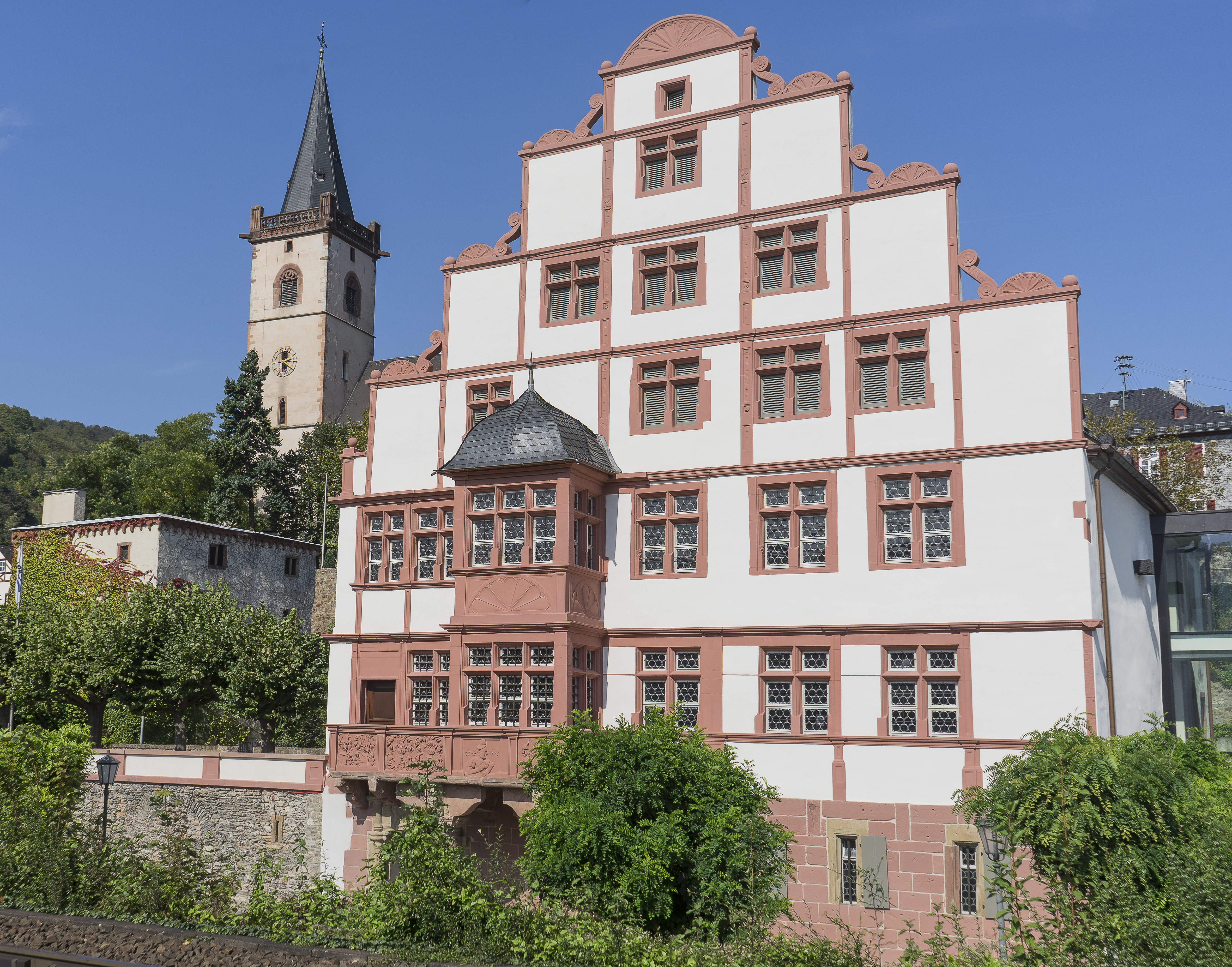 The Hilchenhouse in Lorch at Rhine River